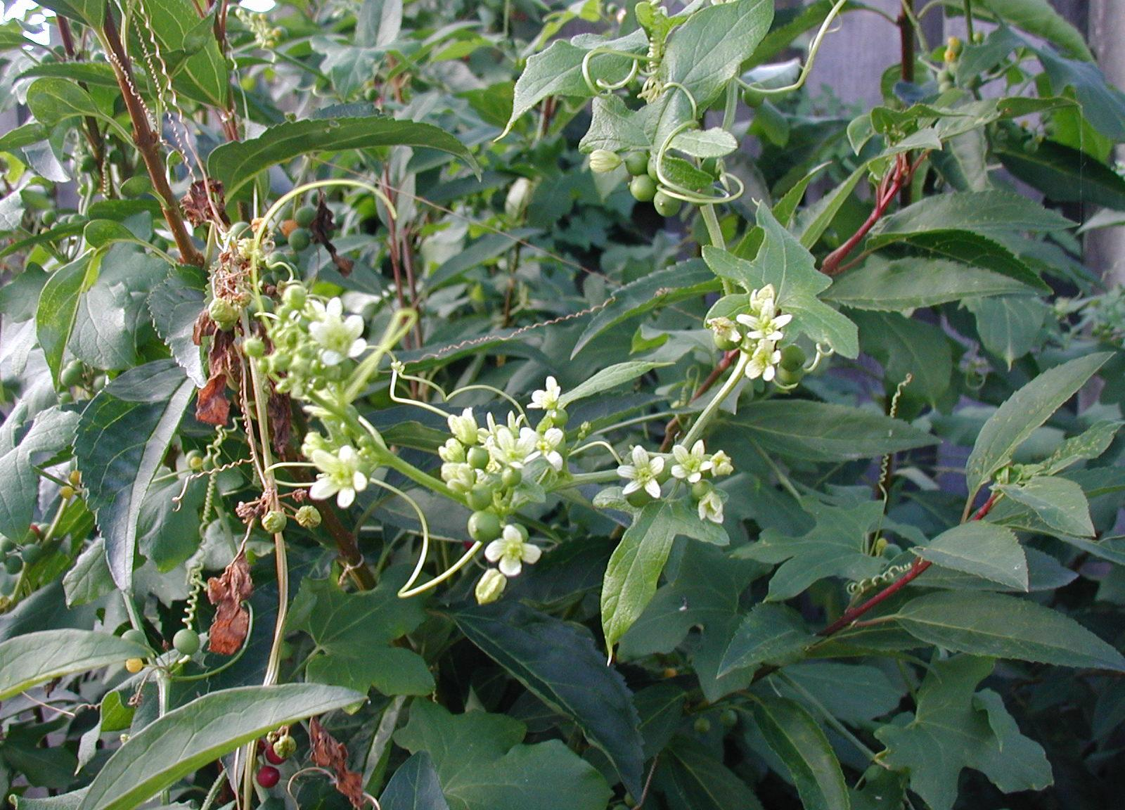 Bryonia cretica: Flowers.